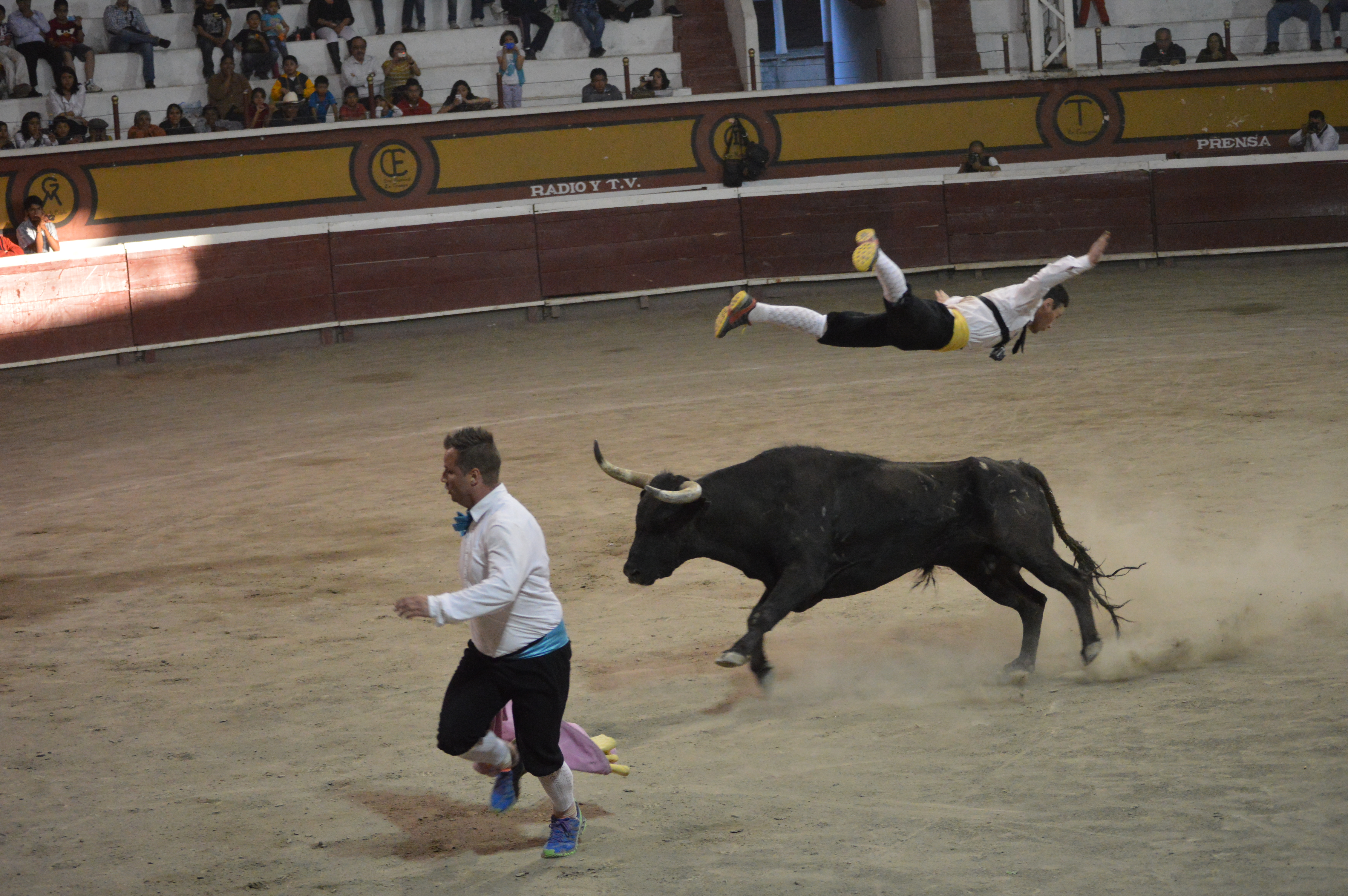 Bull leaping at the bull ring in Huamantla, Tlaxcala, Mexico